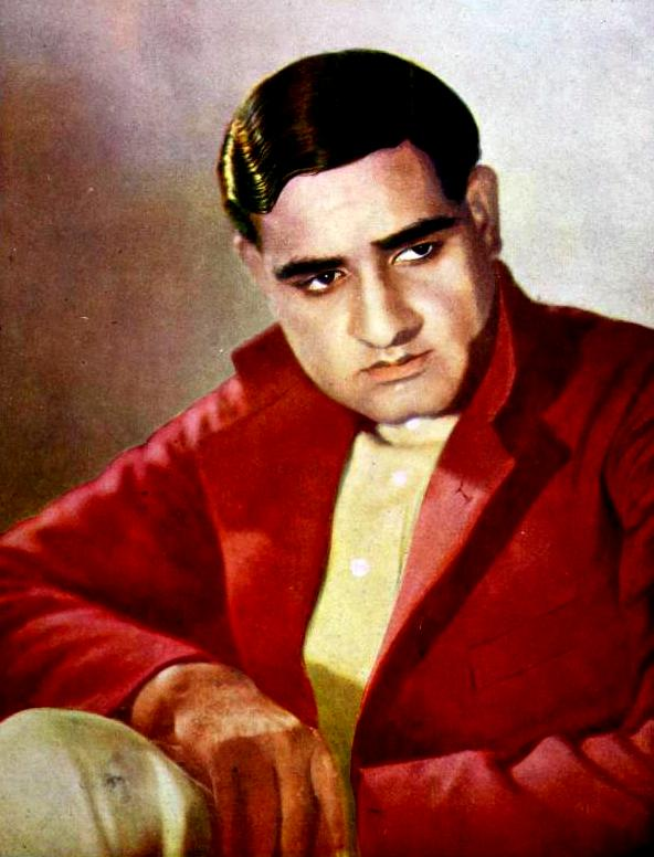 Photo taken from and croped to used in wikipedia